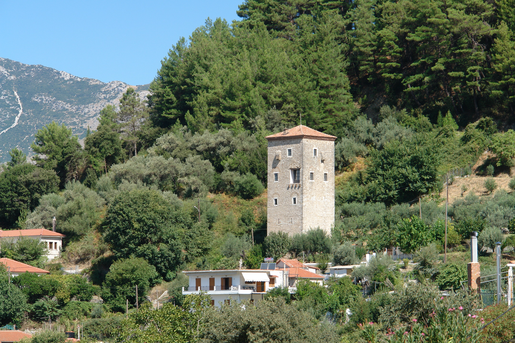 Tower Koulia in Paramythia, Greece